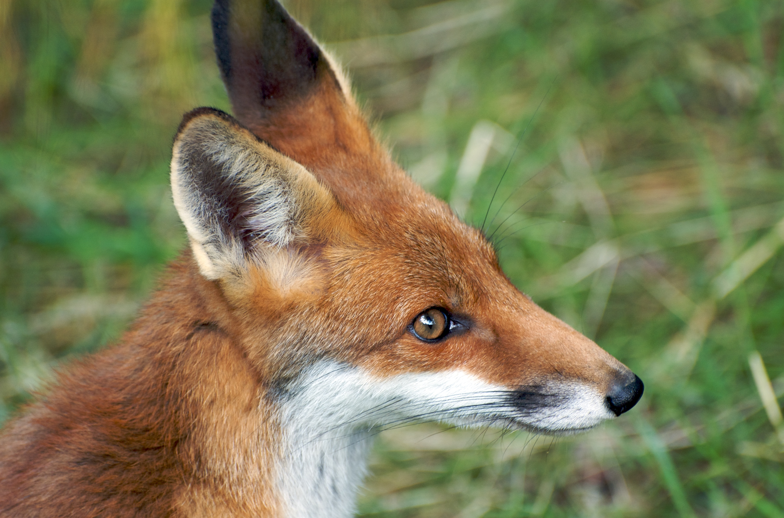 Shepreth wildlife park's new young fox